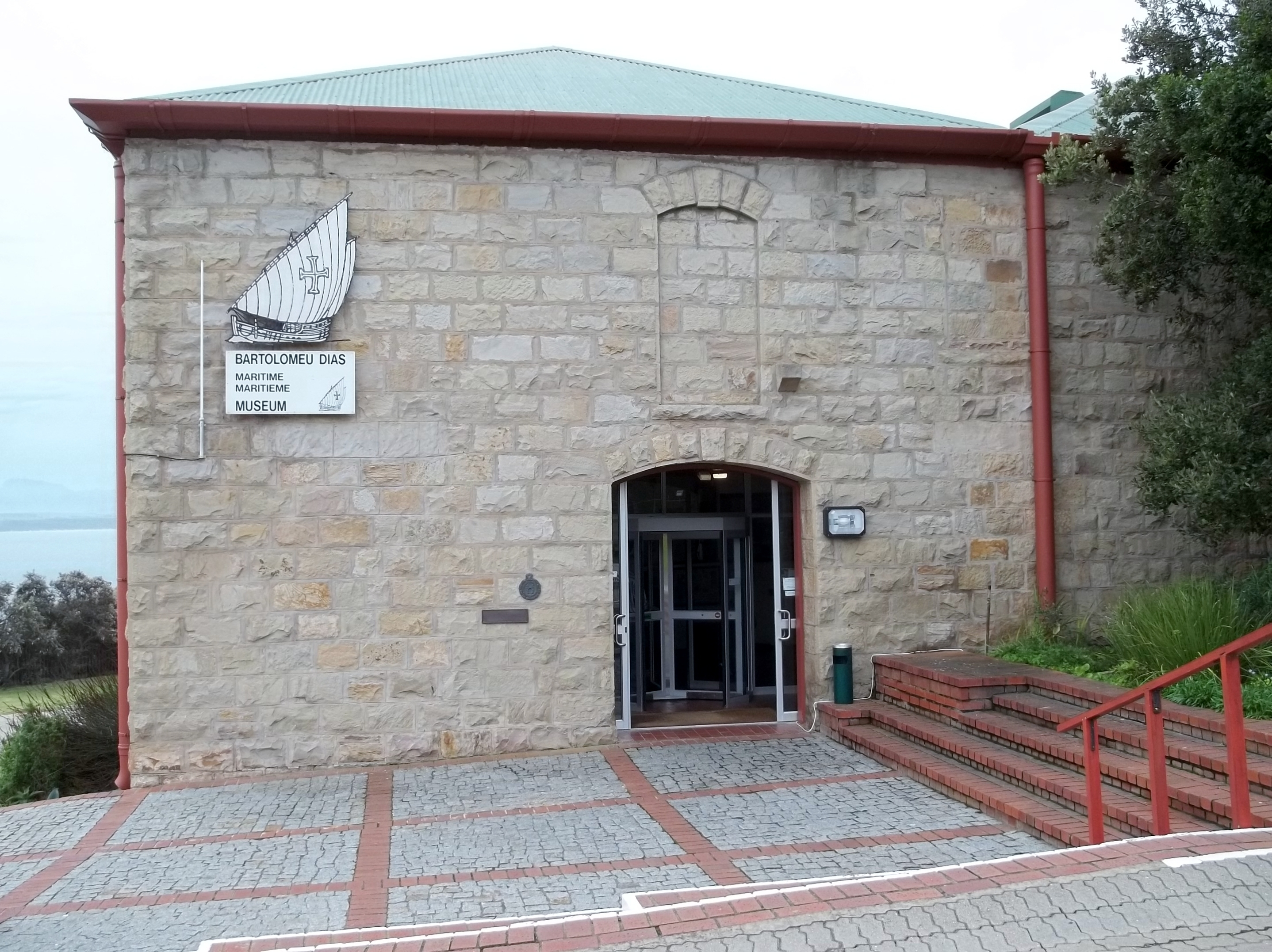 Bartolomeu Dias Maritime Museum - Mossel Bay - Südafrika - 2012